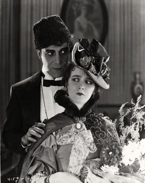 Arthur Edmund Carewe and Mary Philbin in the film The Phantom of the Opera - publicity still (original image damaged, modified & cropped)